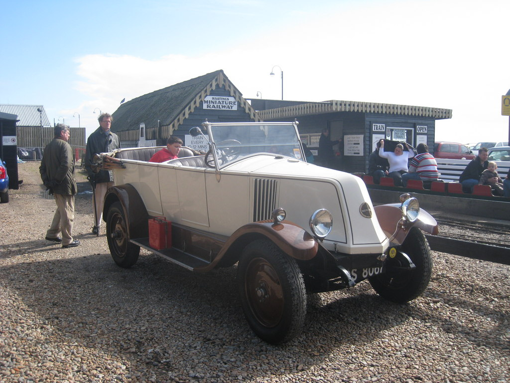 Renault Type KZ, built 1923 with 2121cc engine. British plate OS 8067. One of a number of pre-WWII classic and vintage cars at the re-opening of the East Hill lift.